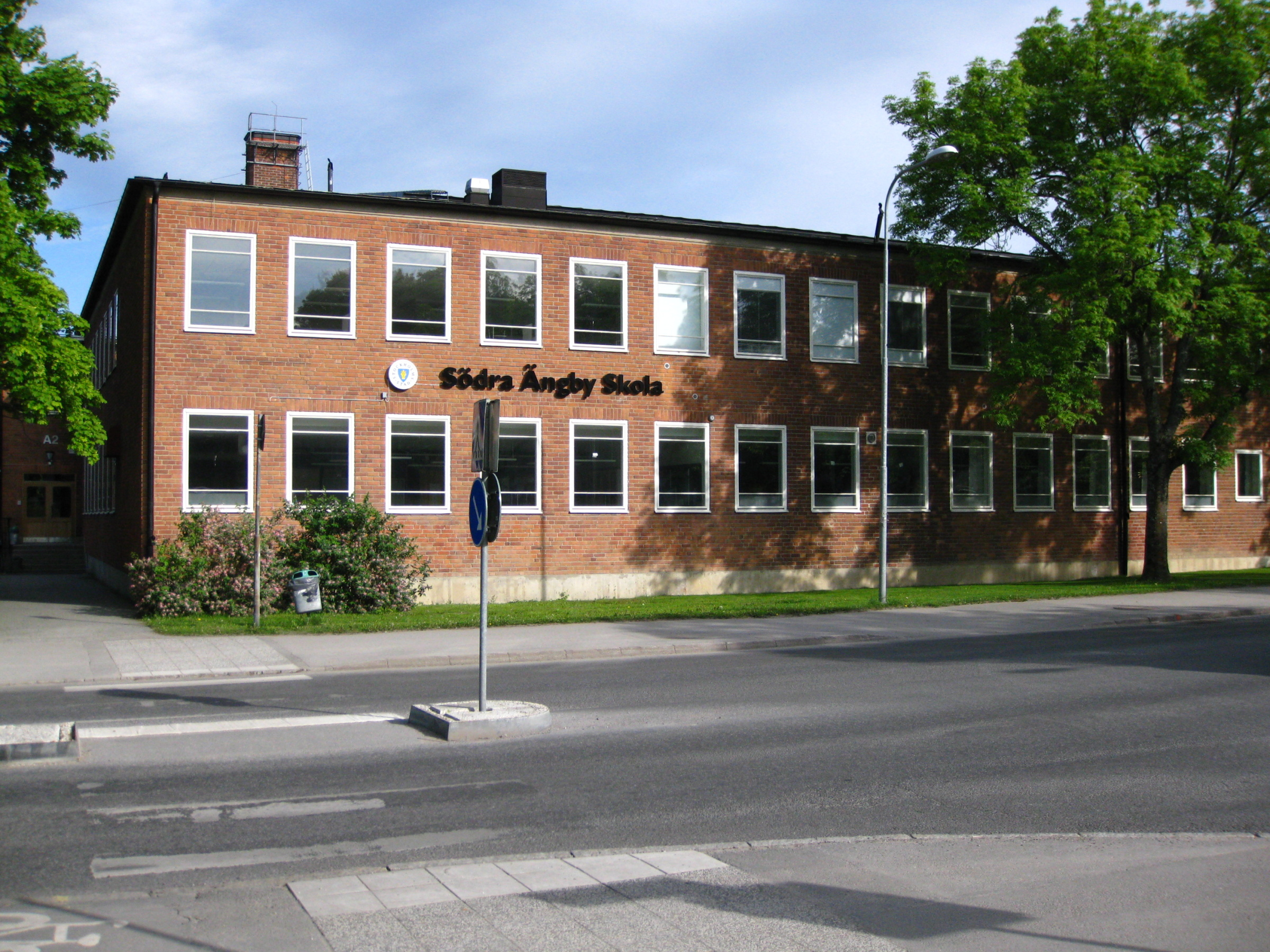 Södra Ängby school, Bromma, western Stockholm, Sweden.